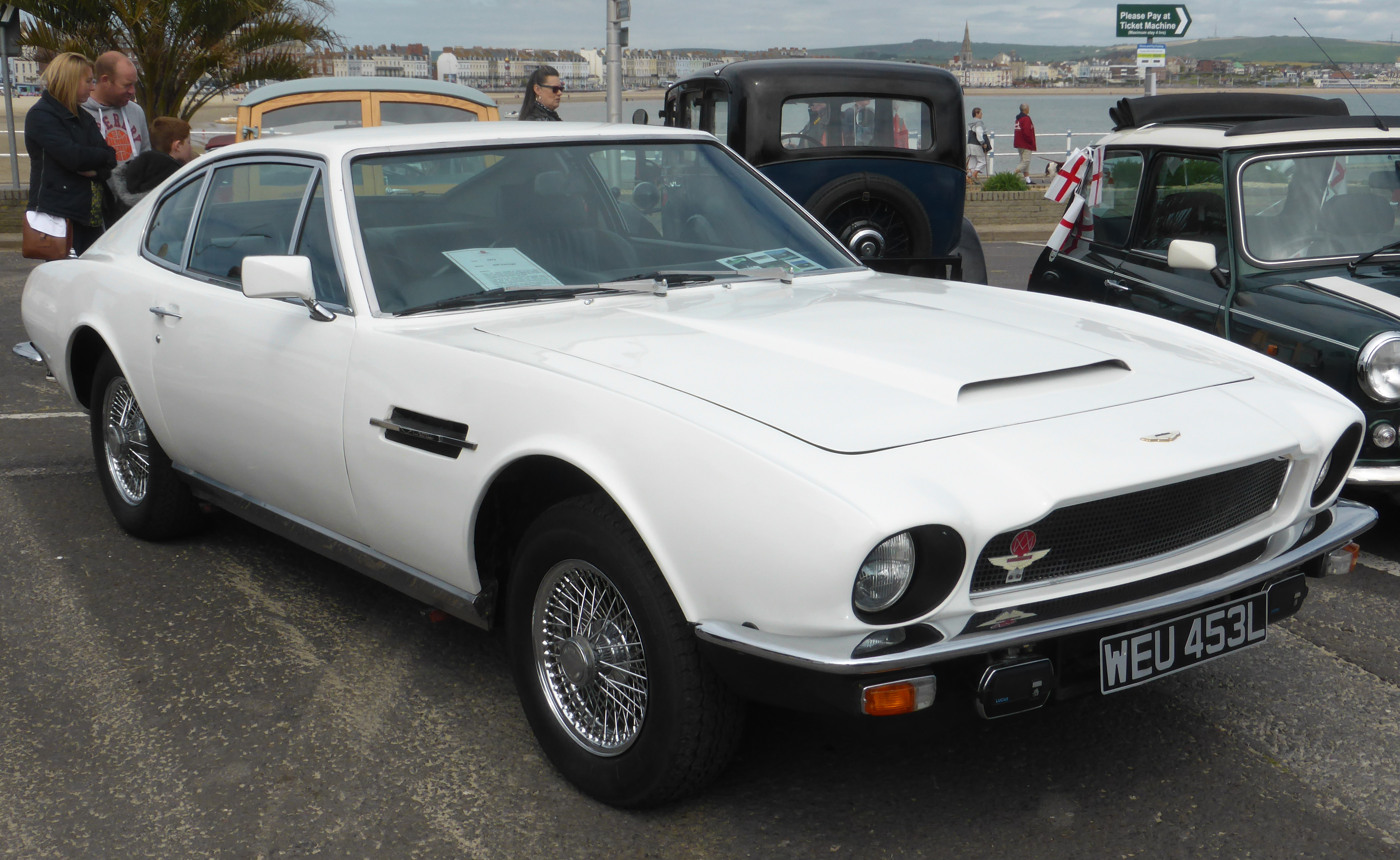 Yeovil Car Club Meeting at Weymouth Pavilion